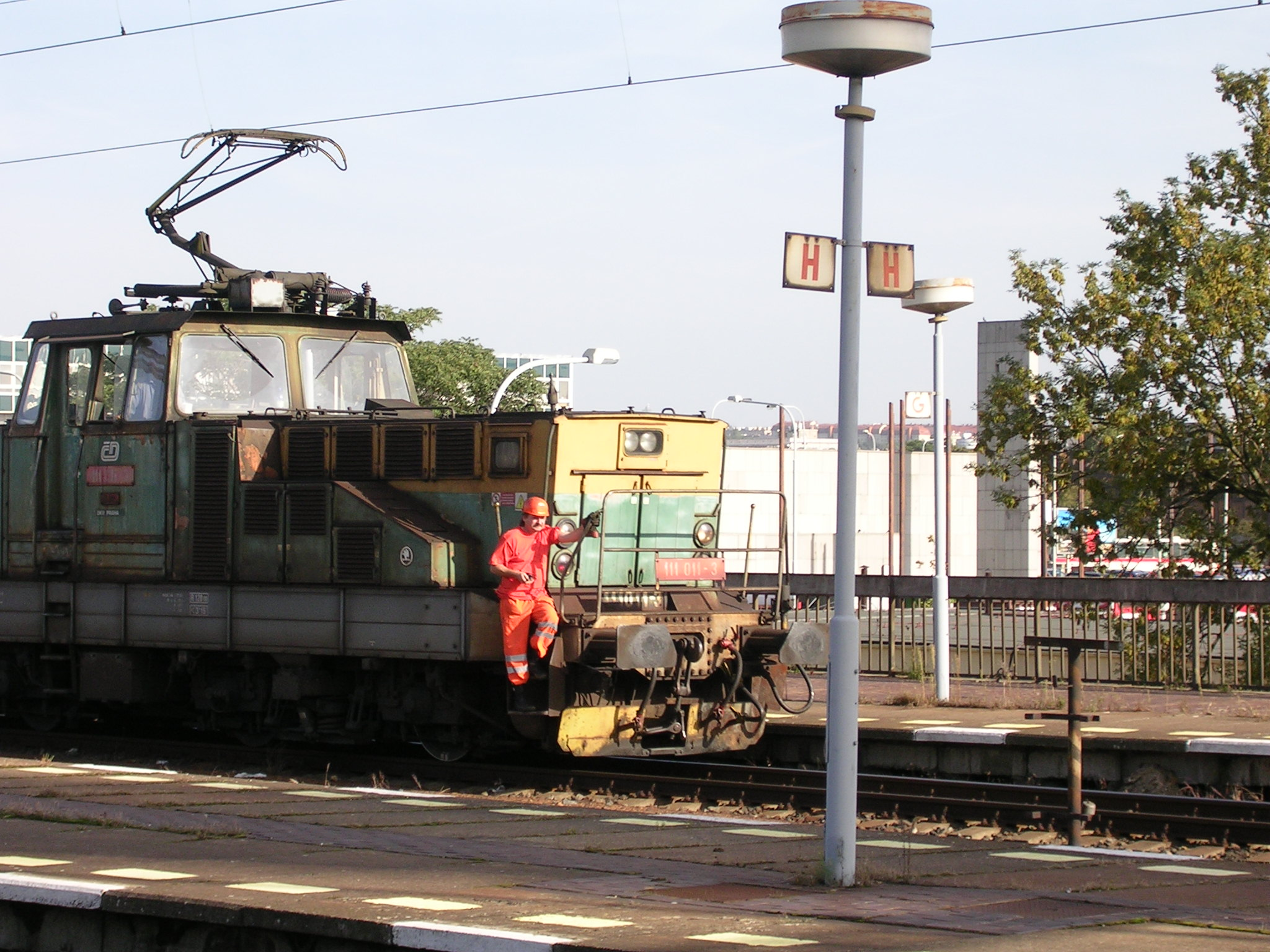 Holešovice, Prague, the Czech Republic. "Praha-Holešovice" train station, a view from the 3-rd platform.